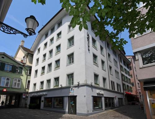 Hotel Helmhaus Zürich